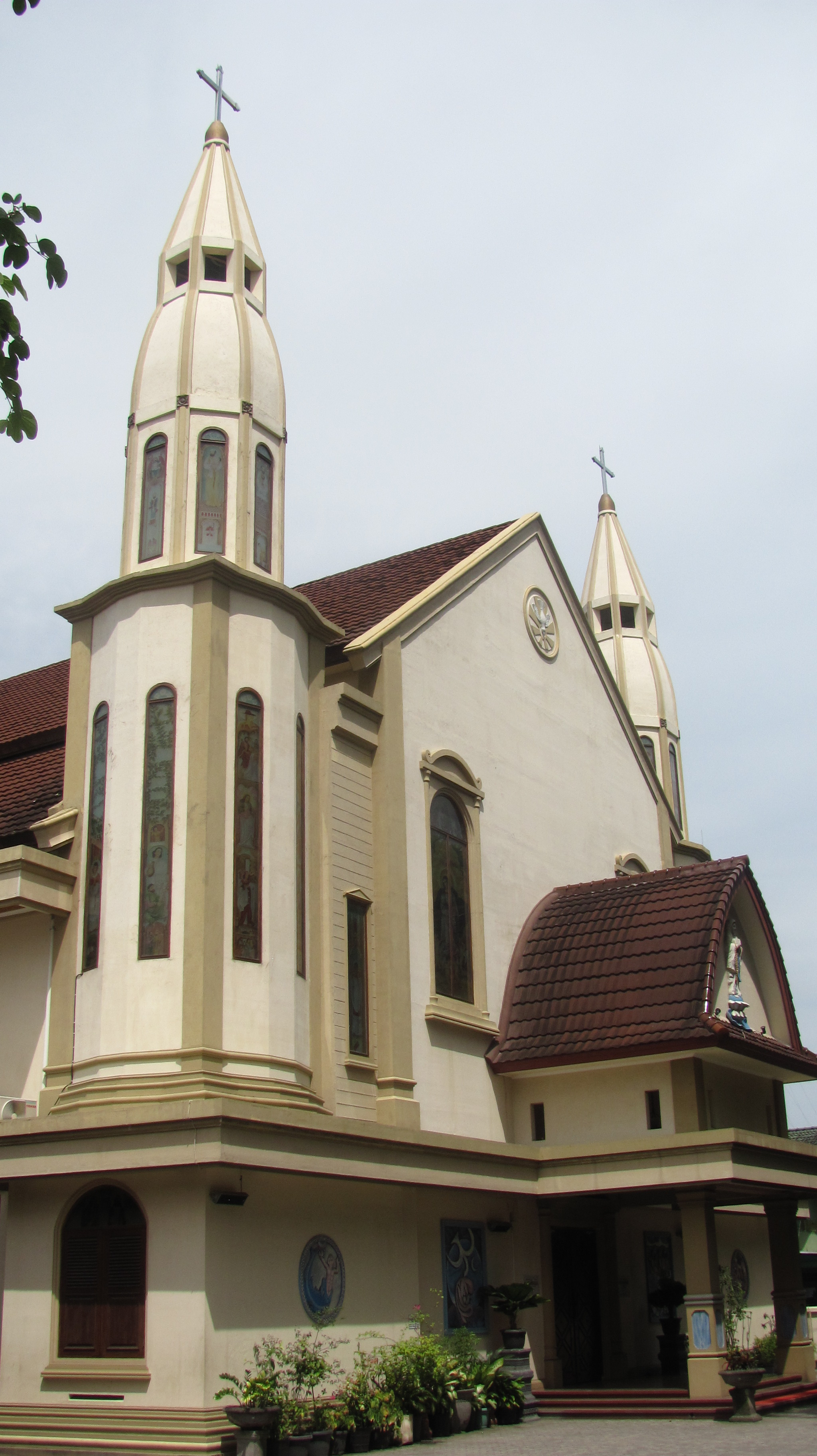 Catholic Church, City of Mataram, Indonesia